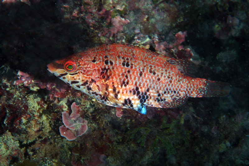 Symphodus roissali photographed in Tuscan waters (Italy). Photo by Stefano Guerrieri.